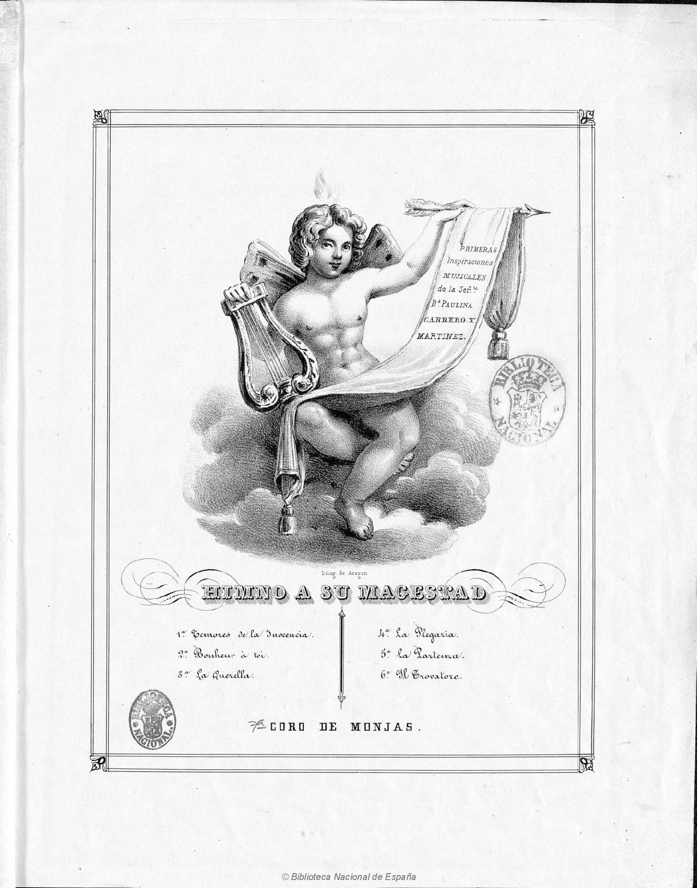 Portada de Primeras impresiones musicales (1843), conjunto de canciones de Paulina Cabrero y Martínez.